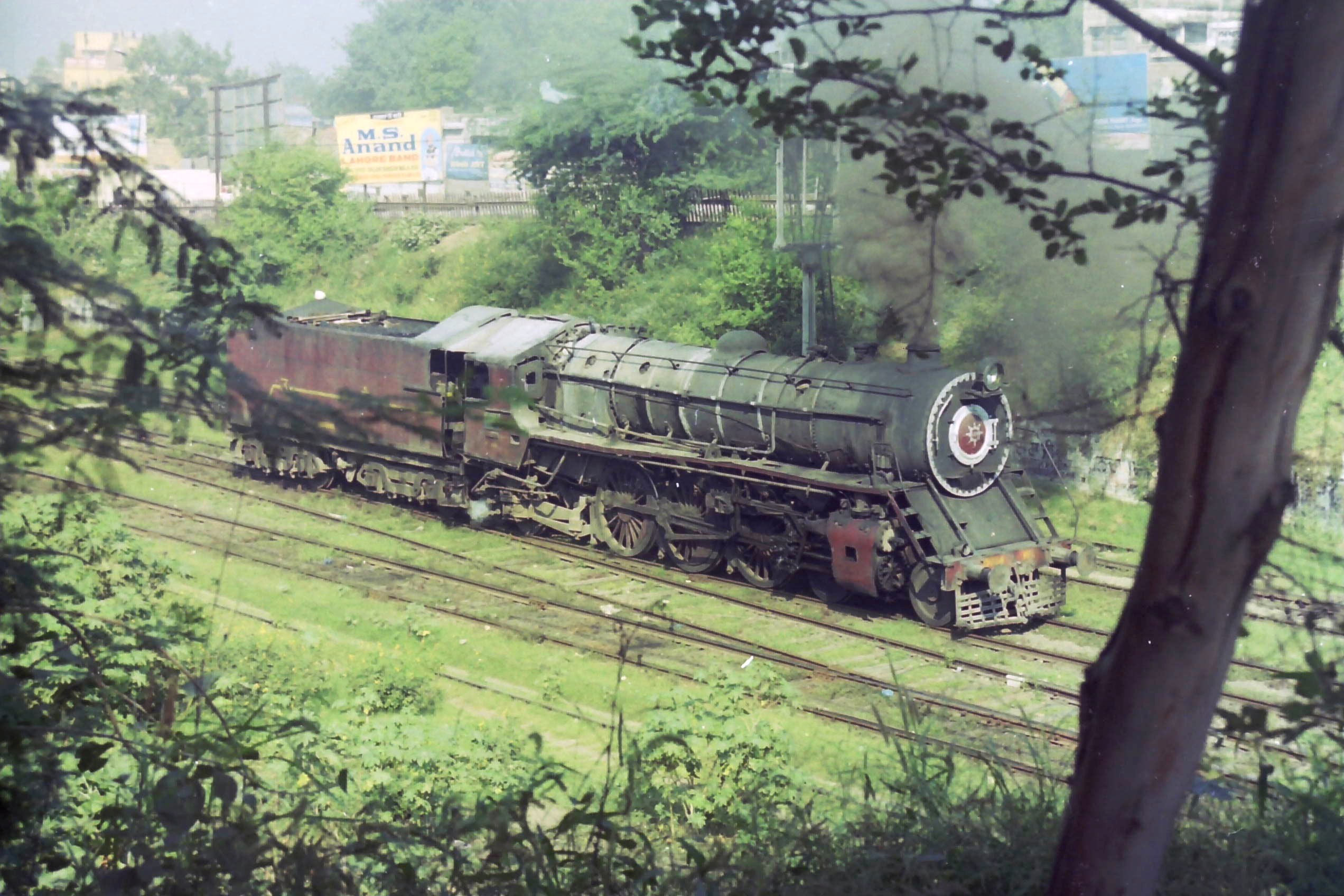 Indian locomotive class WL (1955) no. 15084 at the eastern station throat of Amritsar Jn railway station, India.Kodacolor Gold 100 negative converted by Kaiser Baas Photo Maker Pro into a digital image.